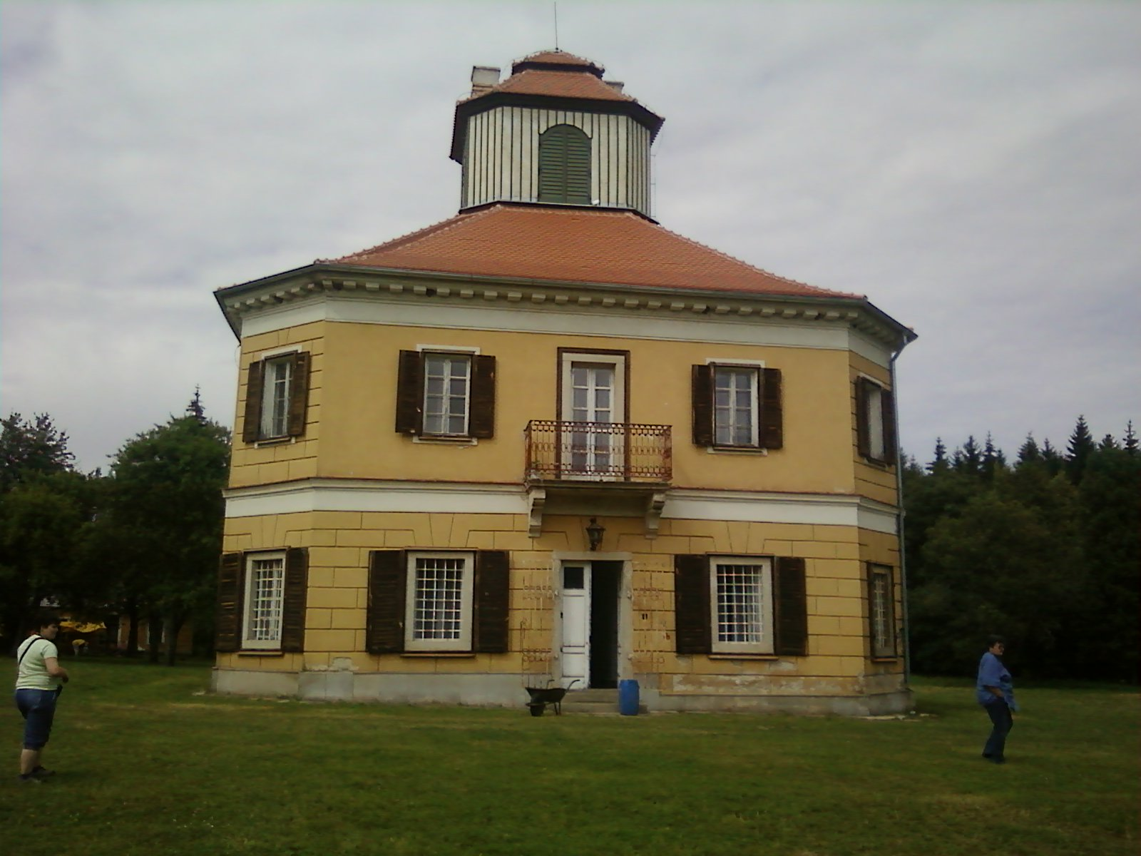 Brtnice, Jihlava District, Czech Republic, part Jestřebí. Aleje Castle.